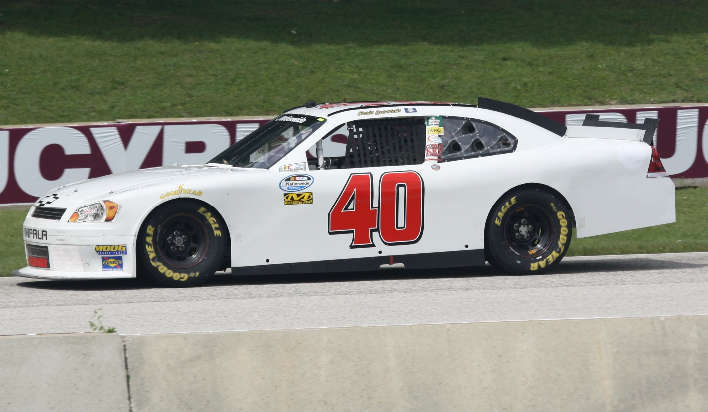 NASCAR driver Charles Lewandoski racing his stock car at Road America at the 2011 Bucyros 200 Nationwide Series race.